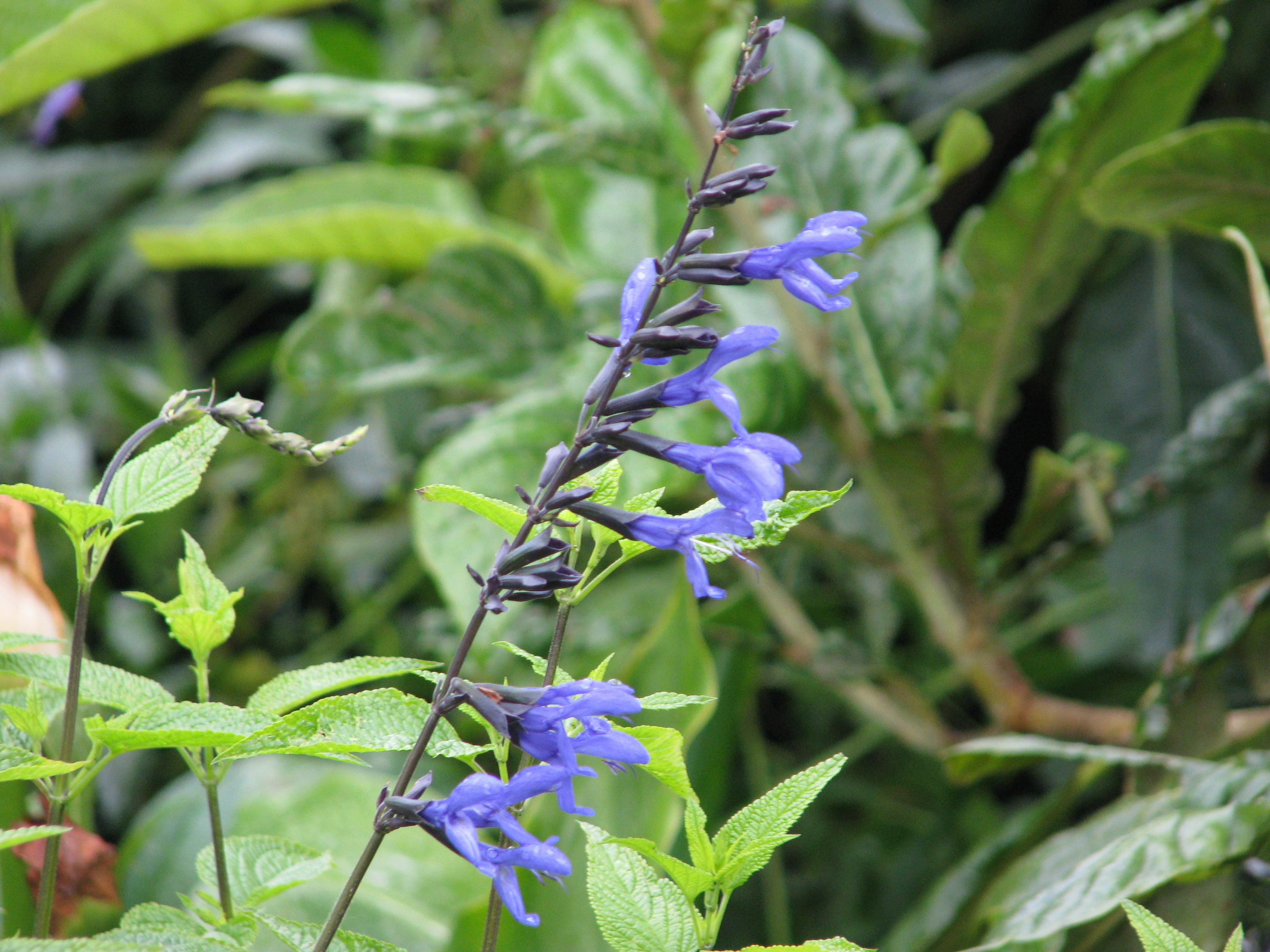 Salvia guaranitica 'Black & Blue'